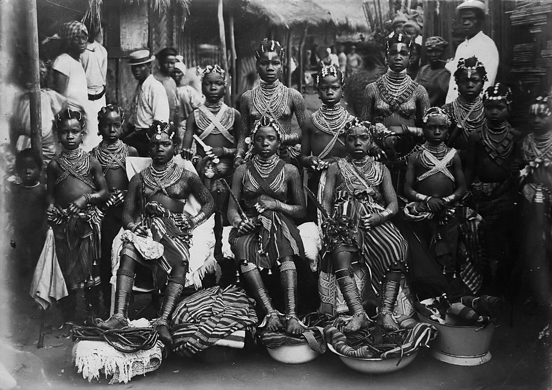 indigenous women of Liberia in their costumes during festivals